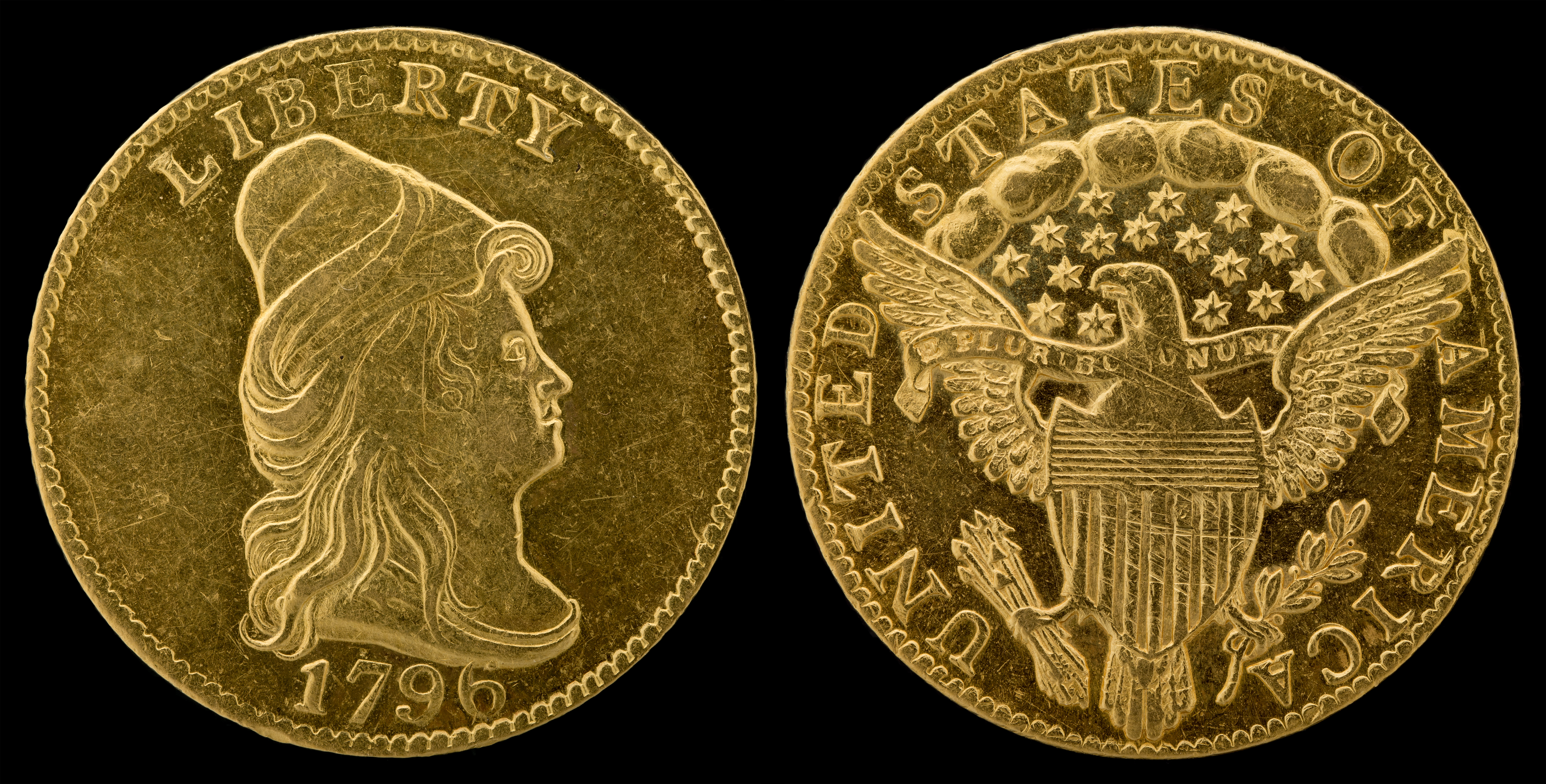 1796 G$2½ Turban Head (or Capped Bust) (no stars)Gold (fineness 0.9160), 20mm, 4.37g, designed by Robert ScotJN2015-6714-15